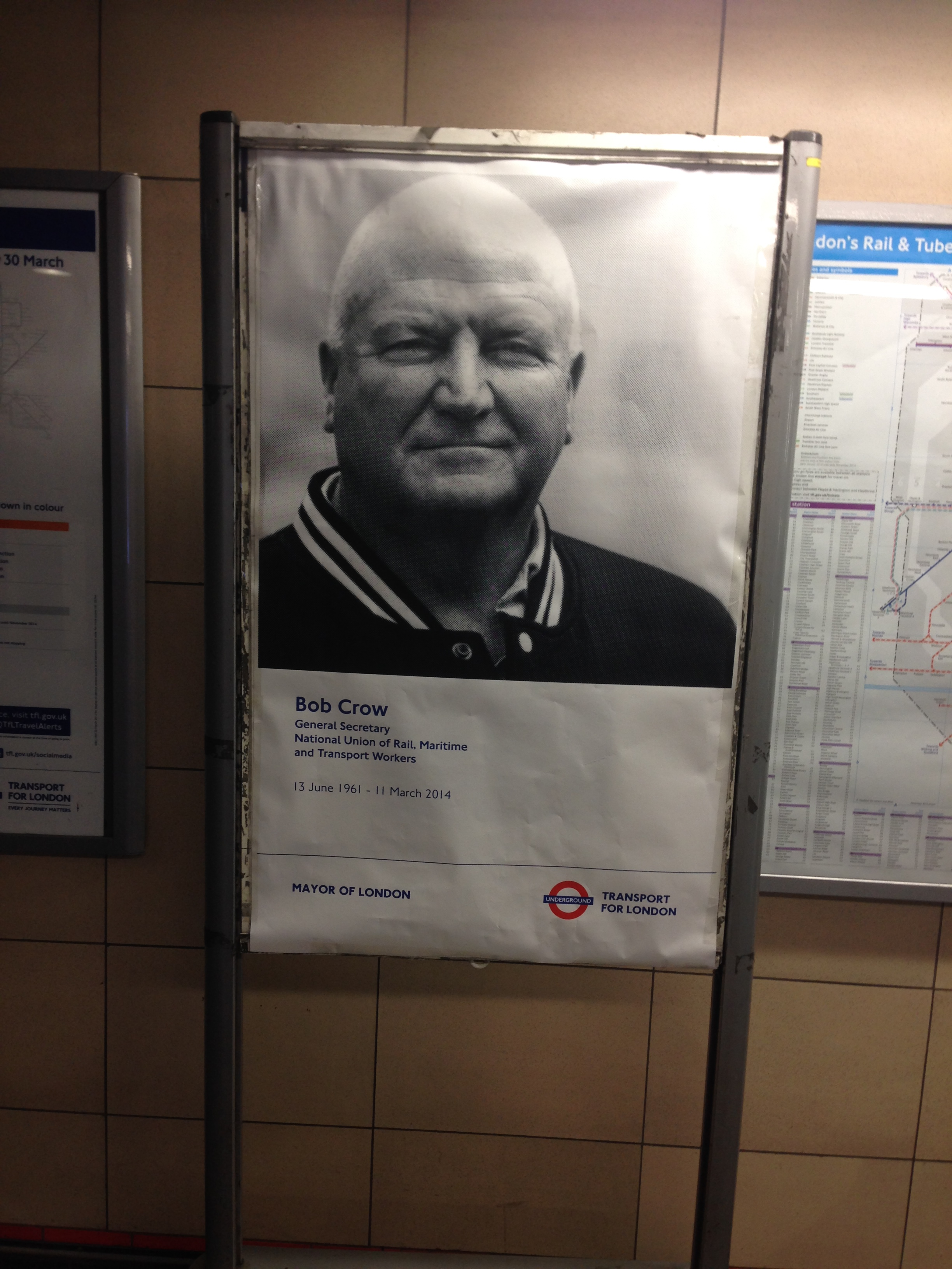 In Bethnal Green station on the day of Bob Crow's funeral